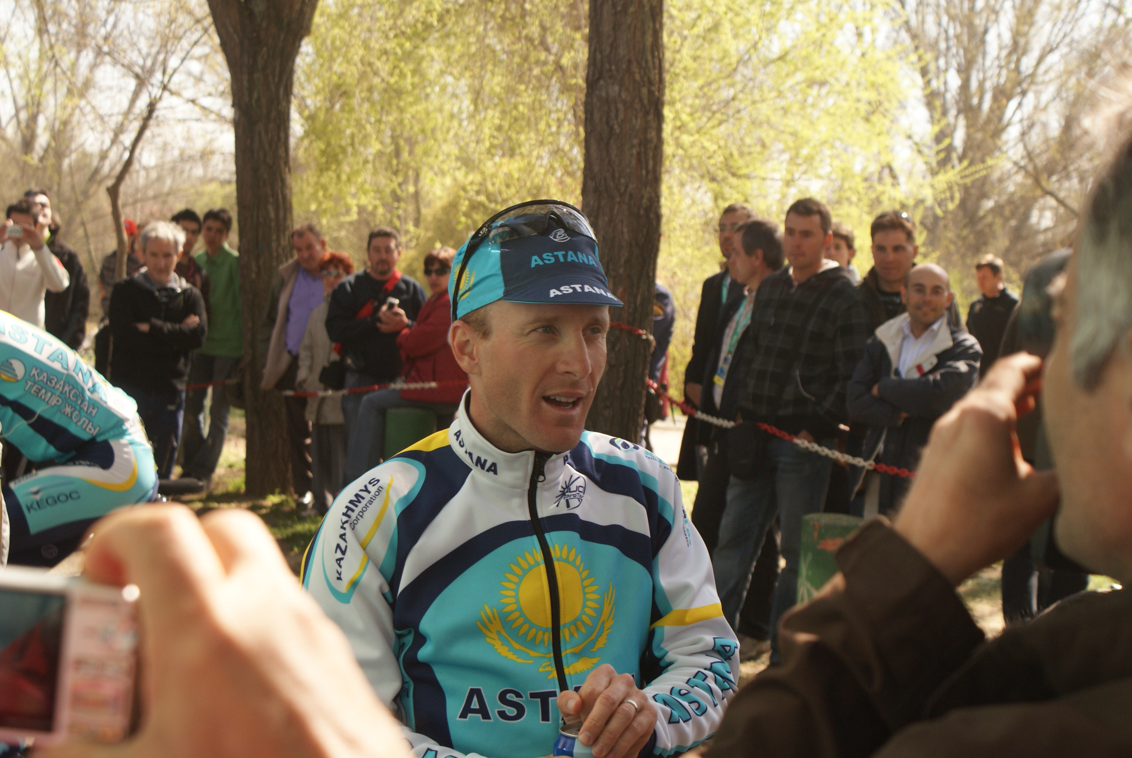 American road bicycle racer, Levi Leipheimer, of the Team Astana in Palencia (Spain) during Vuelta a Castilla y León 2009.